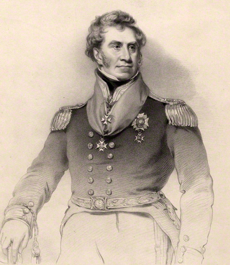 Admiral Sir John Acworth Ommanney, creator of Northbrook Park, Farnham, Surrey